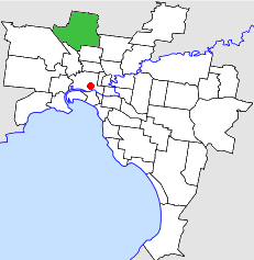 Location of the City of Broadmeadows within Melbourne.